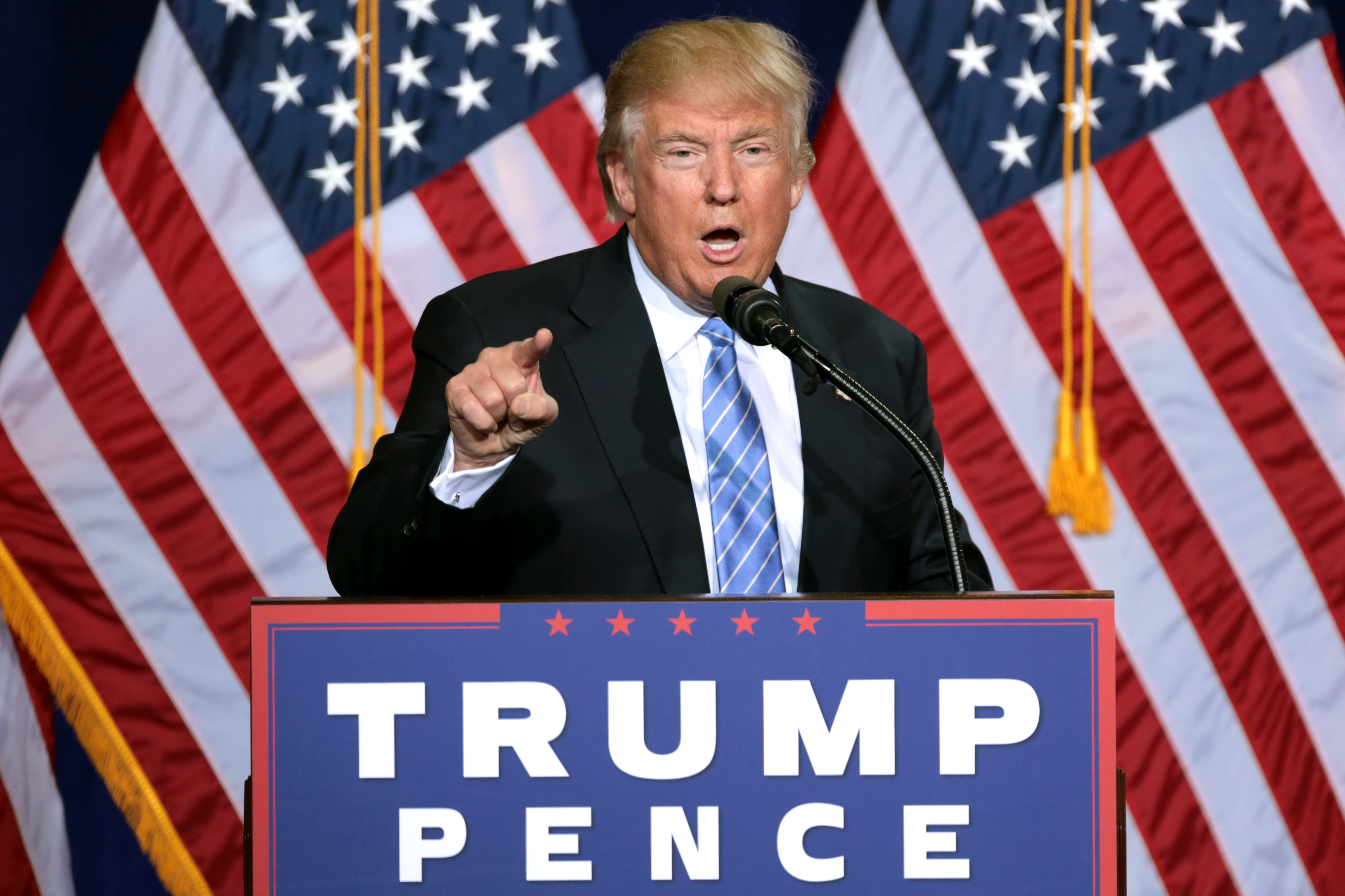 Donald Trump speaking to supporters at an immigration policy speech at the Phoenix Convention Center in Phoenix, Arizona.